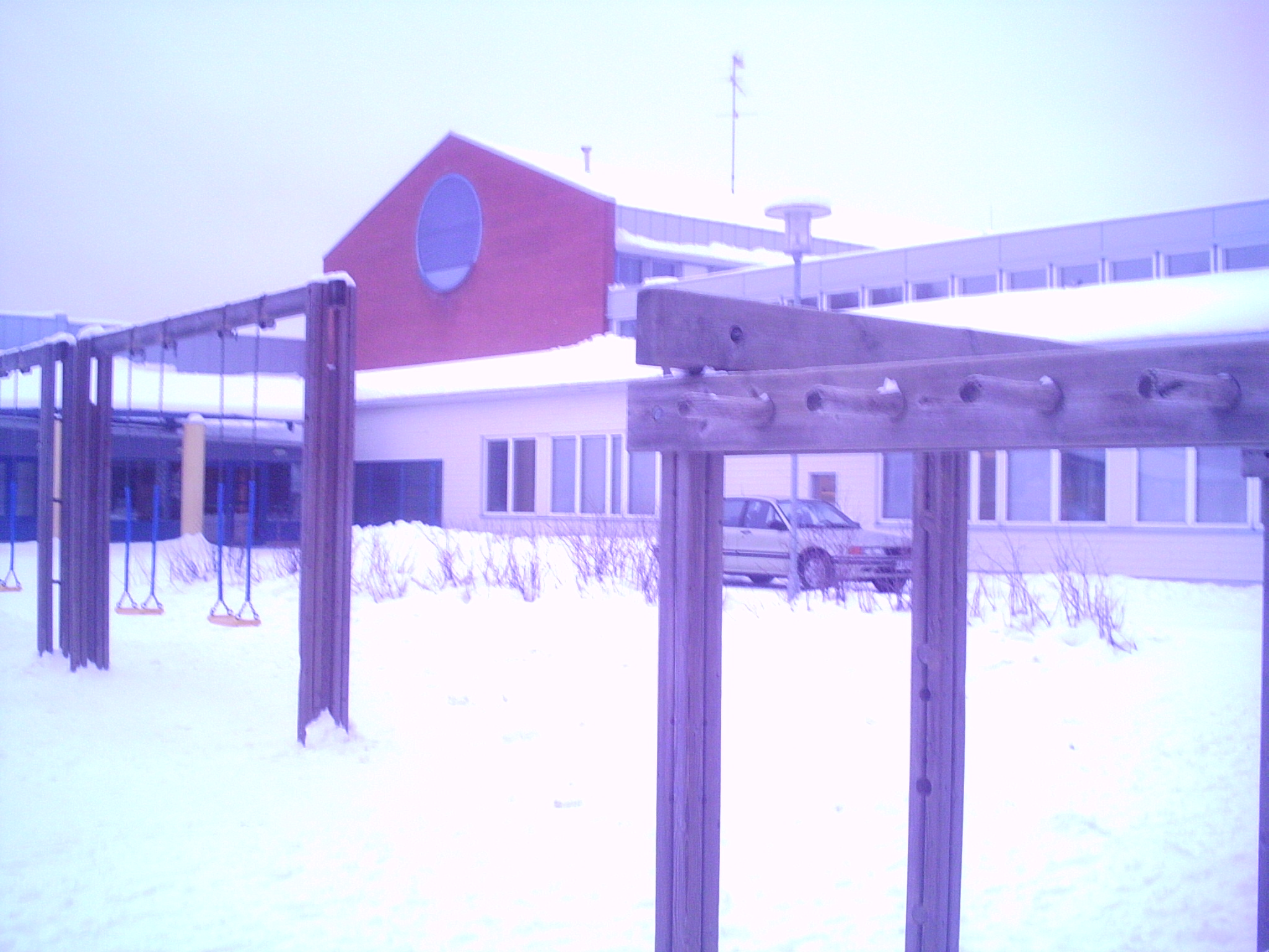 Niittylahti elementary school, Joensuu, Finland